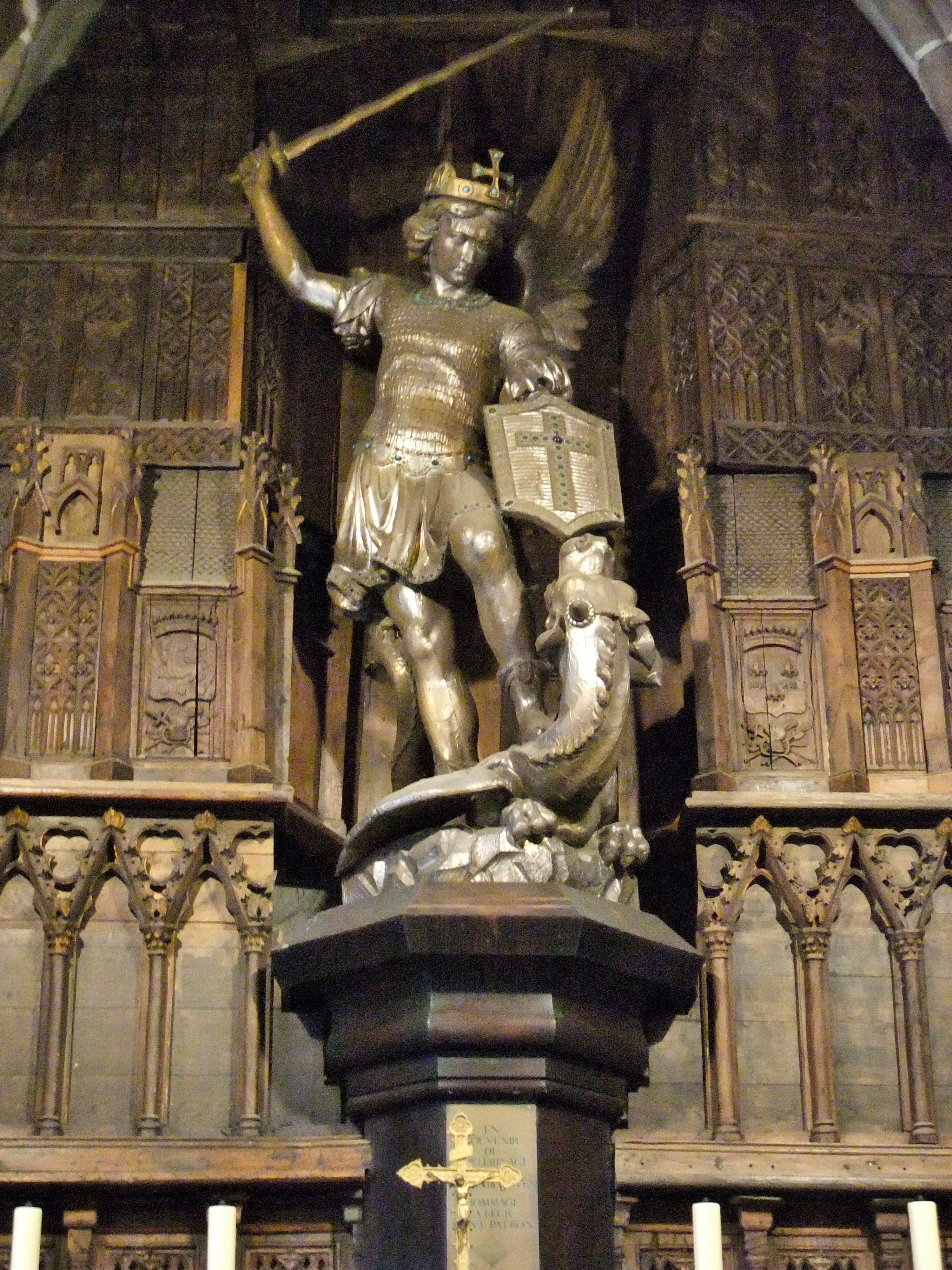 Statue of Saint-Michel, Church Saint-Pierre of Mont Saint-Michel, France